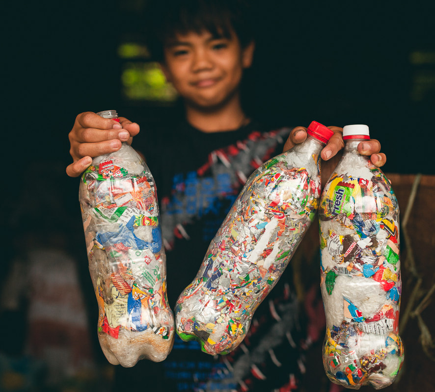 A student in Bontoc, Northern Philippines proudly holds his Ecobricks.